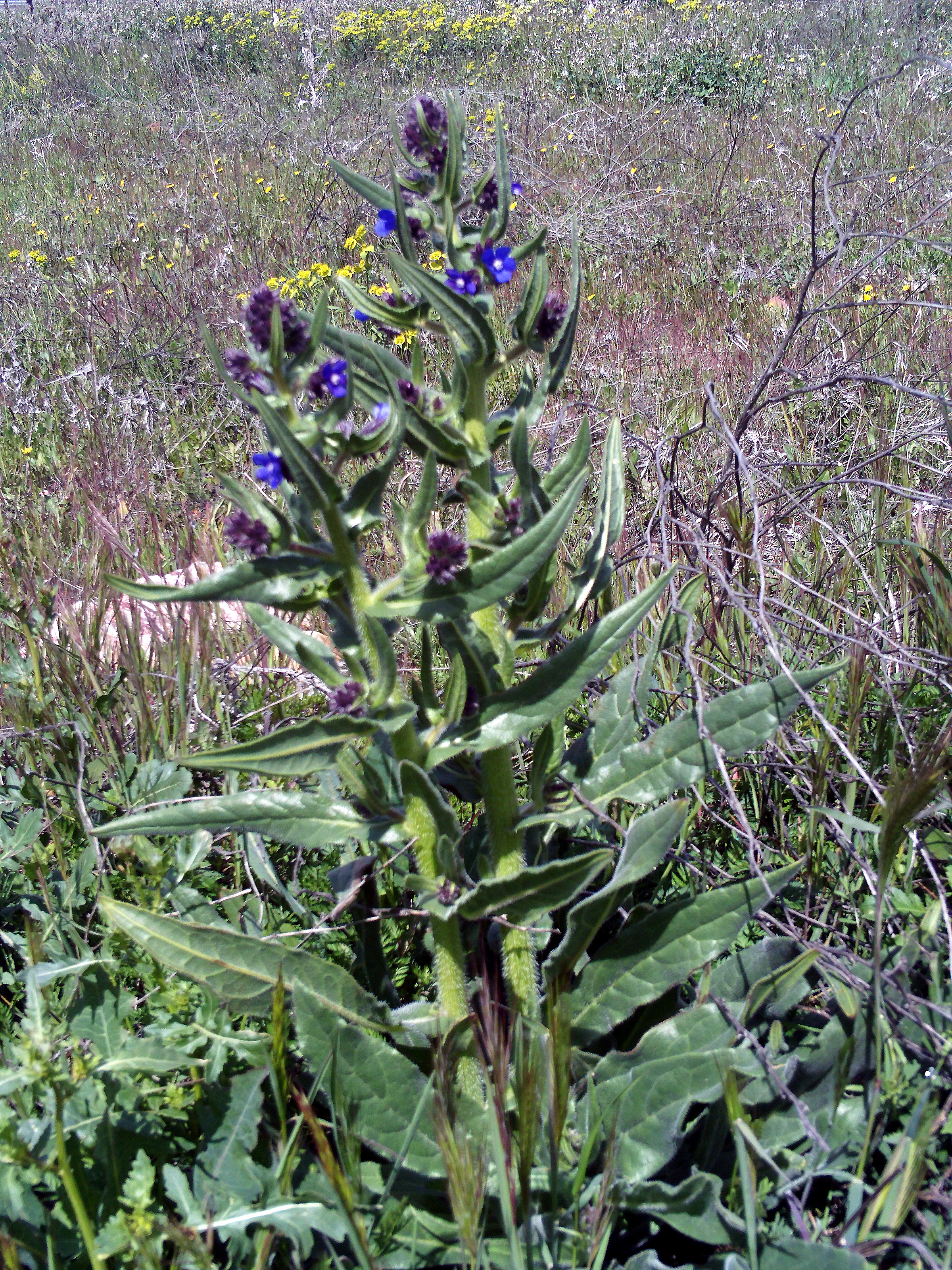 Anchusa azurea habitus, Dehesa Boyal de Puertollano, Spain